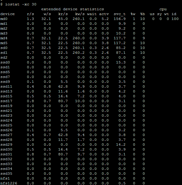 The output of the command iostat -xc 30 on a 64-processor Solaris 10 system with numerous attached disk devices, some under heavy load.